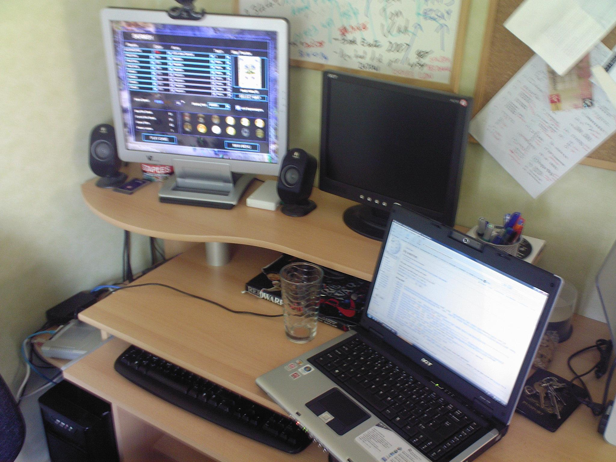 A photo of my desktop. Unforunately the second monitor hooked up to my PC isn't working because I've lost my DVI-to-VGA adapter. I'm playing Command and Conquer Generals Zero Hour on my PC. Wikipedia on my laptop... naturally.